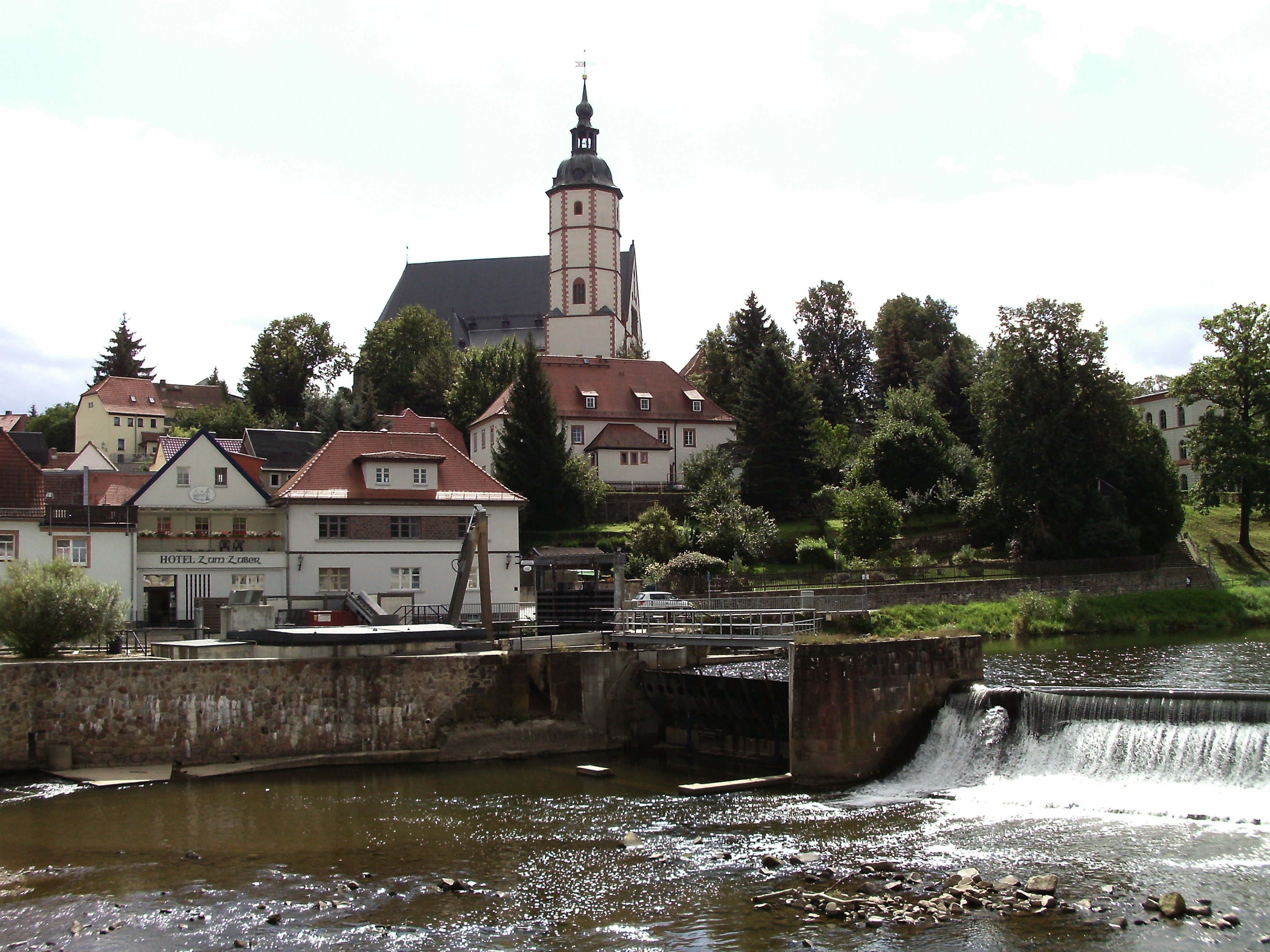 Penig (Mittelsachsen district, Saxony) with Zwickauer Mulde weir and Our Lady on the Hill Church